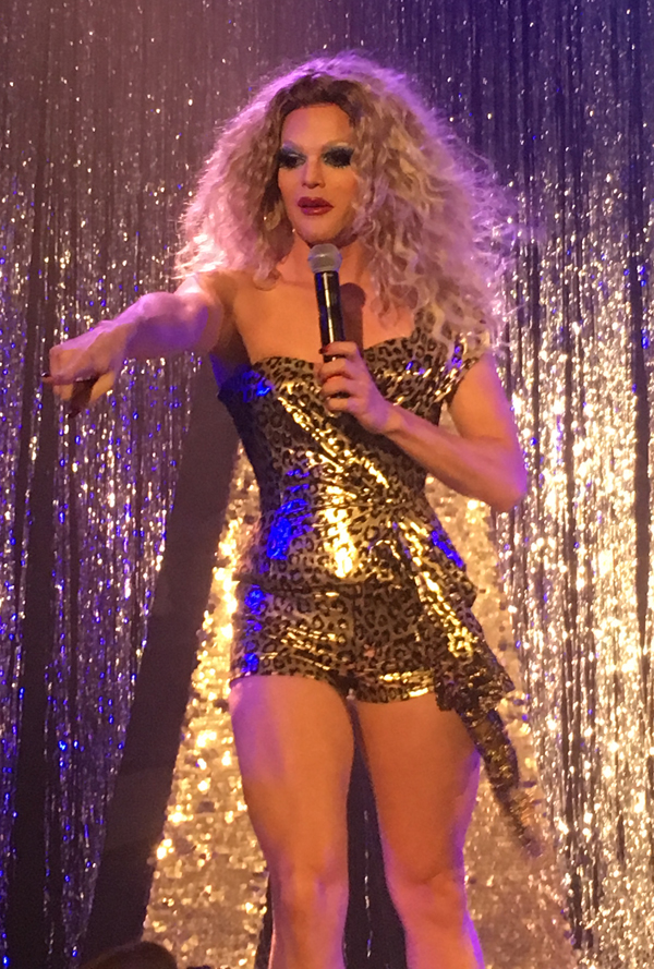 Drag performer Willam Belli while on tour with The AAA Girls. The concert took place October 8, 2017 at the Oriental Theater in Denver, CO.